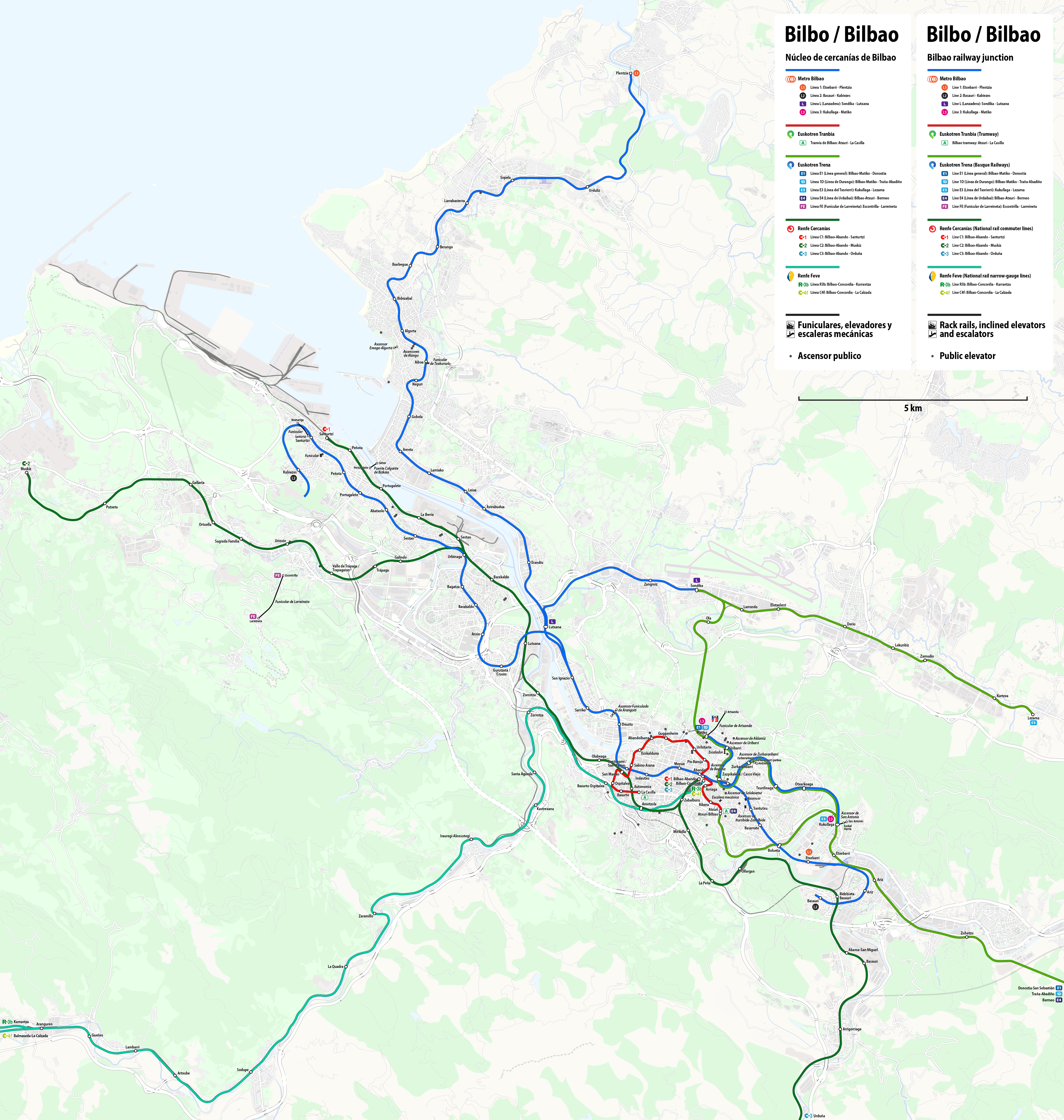 Public transport map of Bilbao